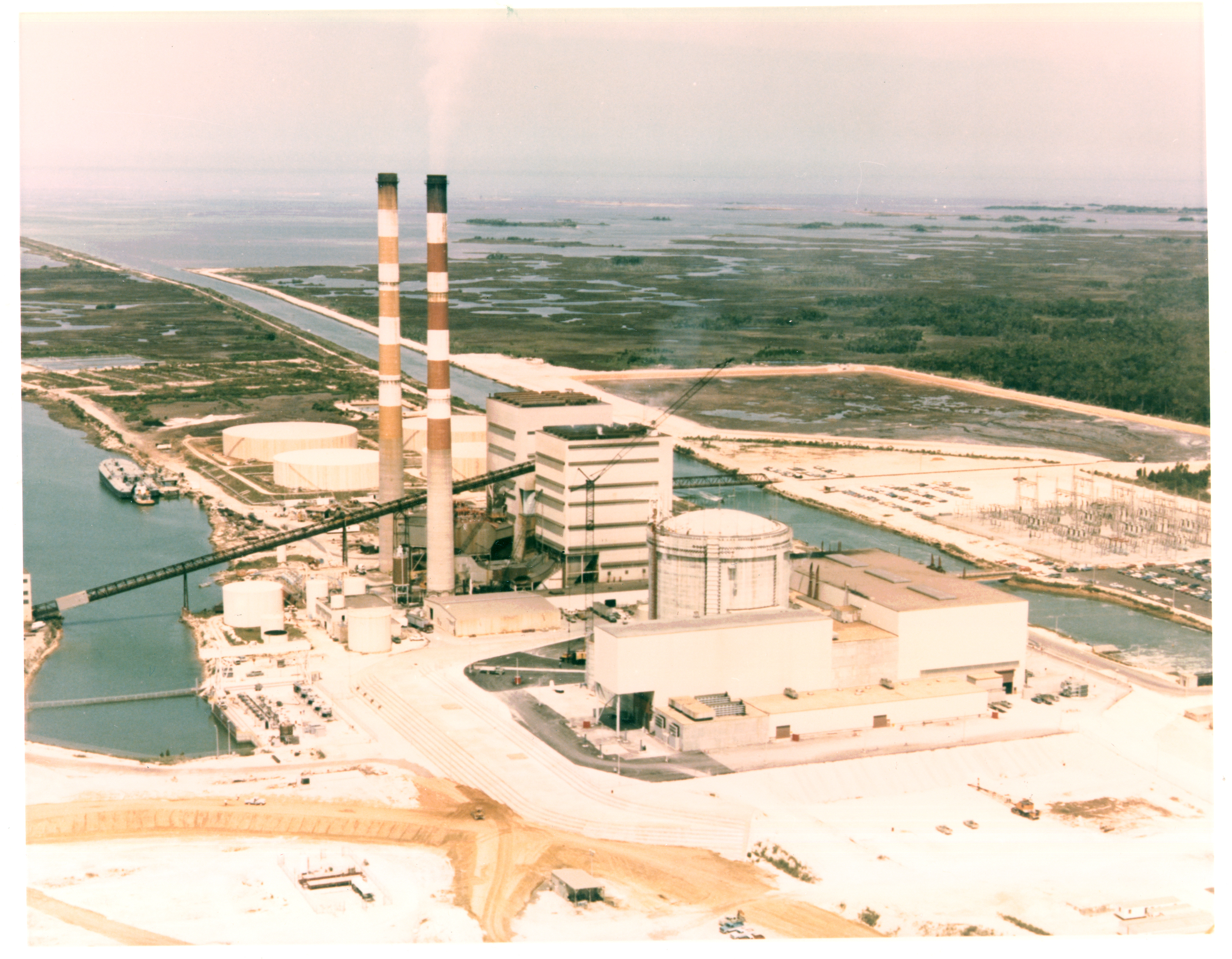 Crystal River Nuclear Generating Plant, Unit 3. The nuclear power plant is located near Crystal River, FL (80 MI N of Tampa, FL) in NRC Region II.